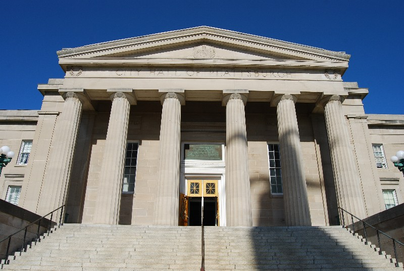 City Hall, Plattsburgh, New York